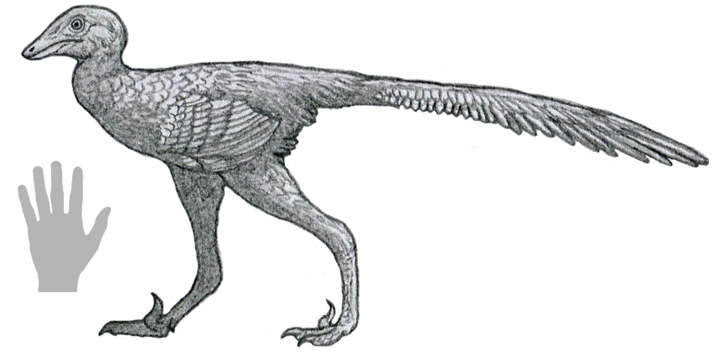 Daliansaurus life reconstruction by Tom Parker, pencil 2017.